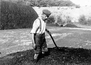 Production of "Klütten", traditional lignit briquettes from the Rhine area, Germany